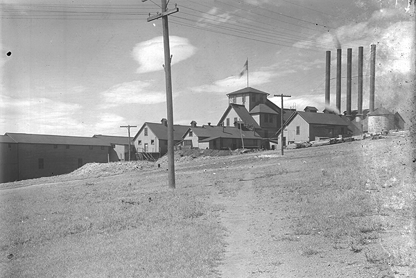 Independence Mine - near Victor, Colorado Springs & Cripple Creek Railway. Image from the George H. Stone Collection of Colorado geological features and views, Special Collections, Tutt Library, Colorado College, Colorado Springs, Colorado.